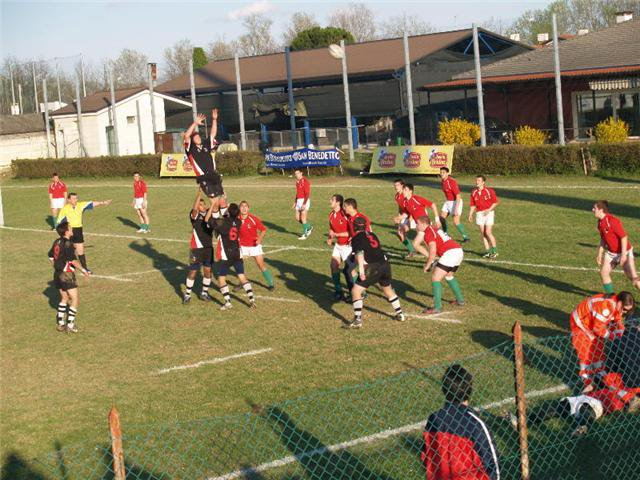 European U18 rugby championship